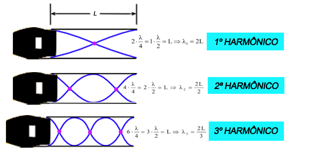 Sound pressure in the flute tube